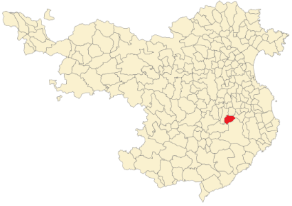 Madremanya